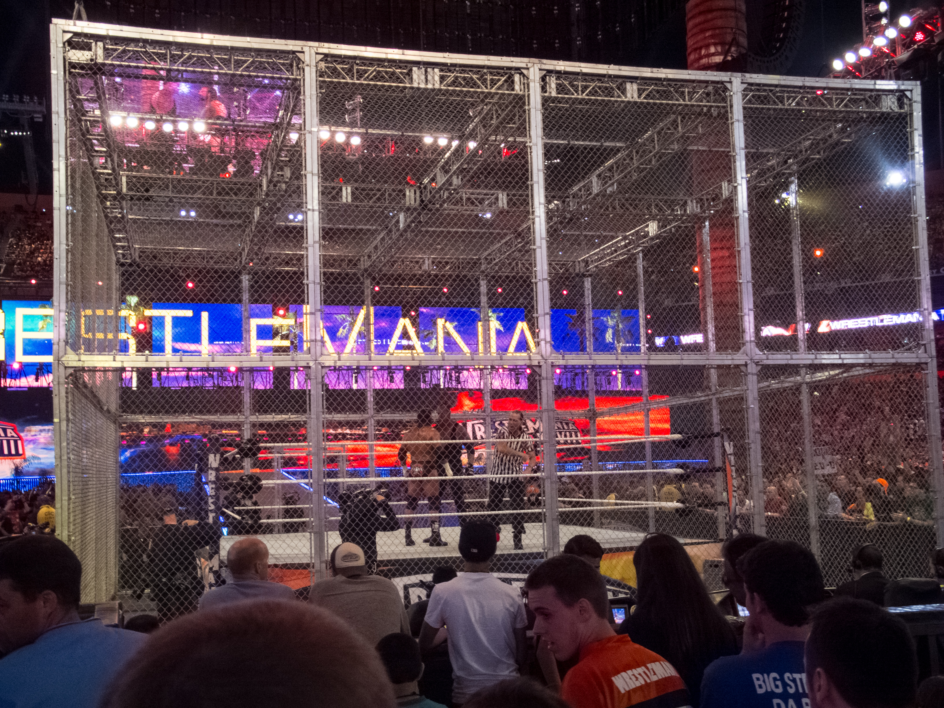 Hell in a Cell Used For The Undertaker vs Triple H at Wrestlemania 28